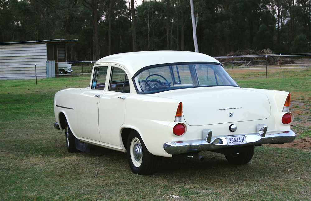 1960–1961 Holden FB Standard sedan, photographed in Australia.